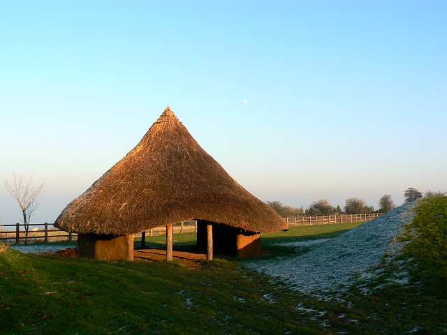 Replica iron age roundhouse, Barbury The roundhouse was constructed in summer 2006 with the help of a grant from the heritage lottery fund. If you decide to go inside and you're tall, duck first.